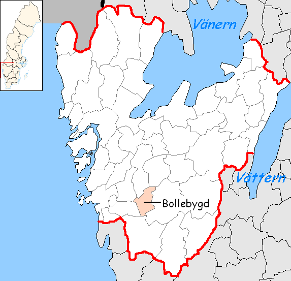 Bollebygd Municipality in Västra Götaland County Designed by me. Mere outlines are a PD source from